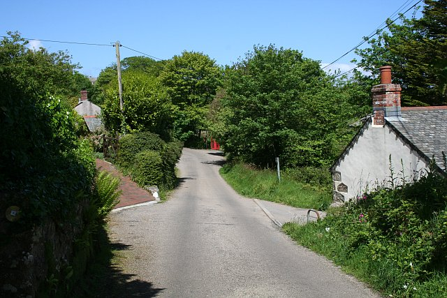 Bolenowe. A hamlet to the west of Troon.